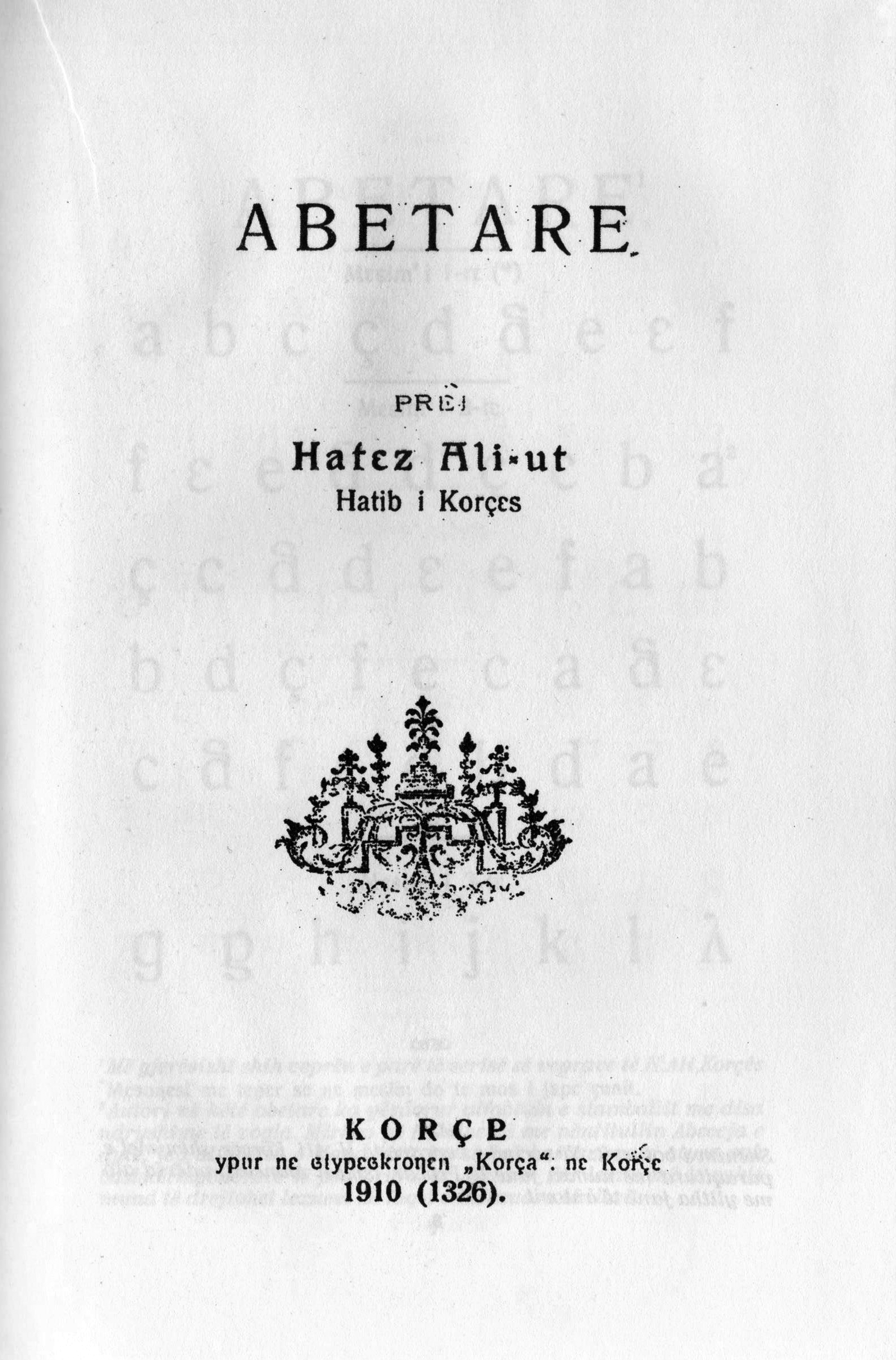 ABC-book from Hafëz Aliu